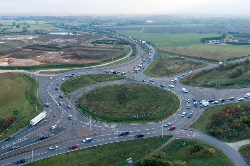 Aerial view of Black Cat Roundabout (A1, A421 roads)